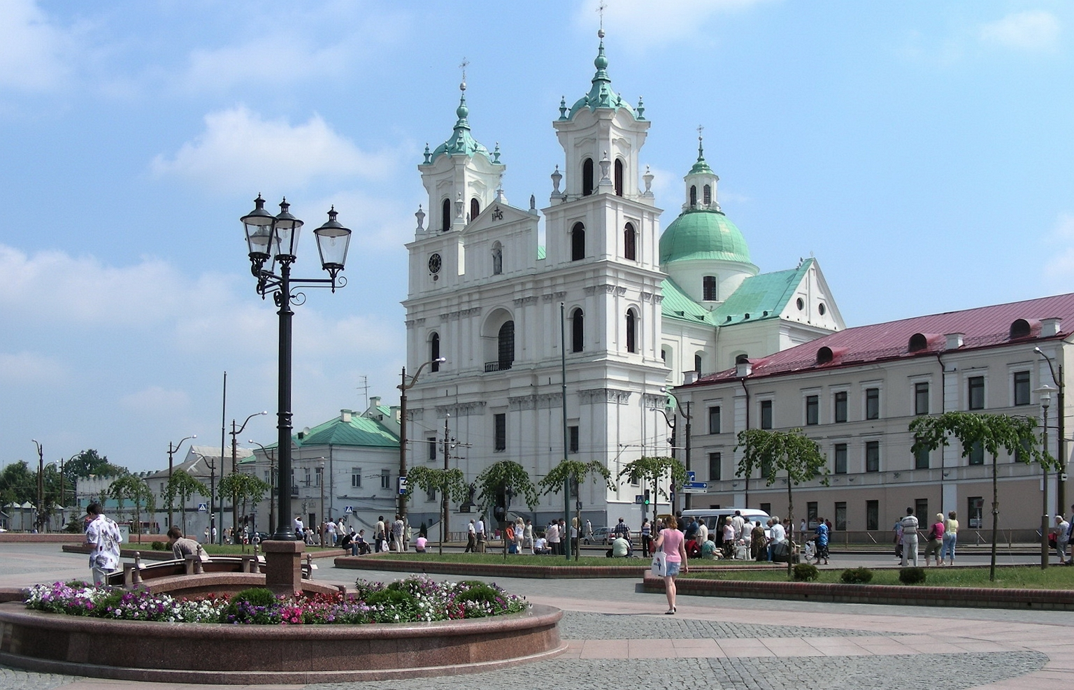 BELARUS / GRODNO (Гродна). Farny catholic church.